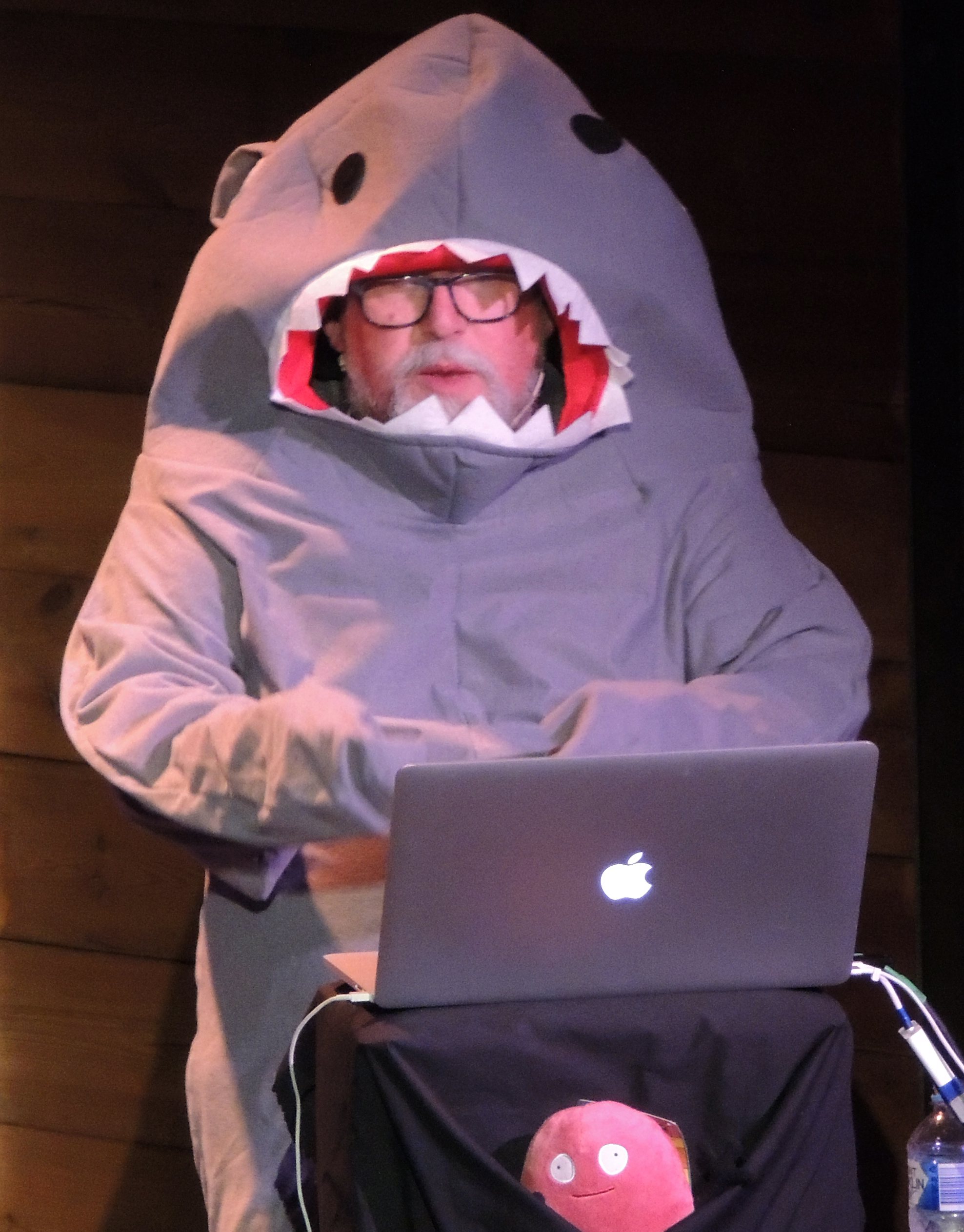 Cartoonist Andrew Marlton delivers a powerpoint presentation during "An Evening with First Dog on the Moon" at the Adelaide Fringe Festival.